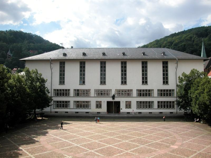 2005 uni-03